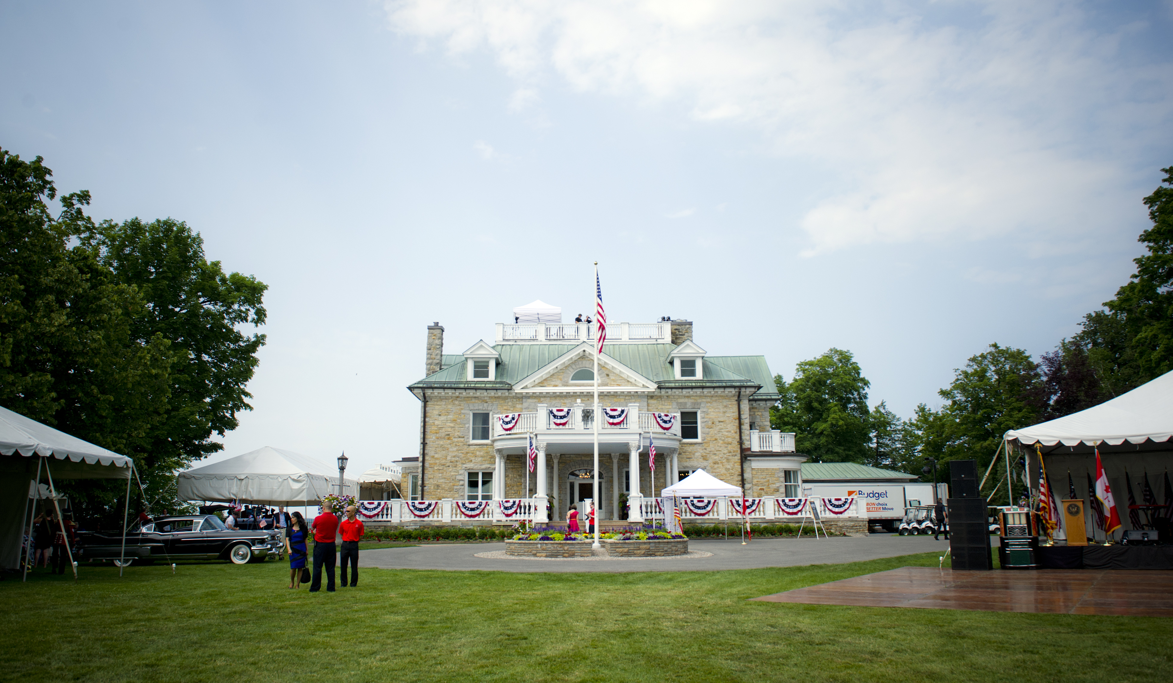 U.S. Ambassador to Canada Bruce Heyman and Vicki Heyman's Fourth of July party at Lornado July 4, 2015. Photos by Ashley Fraser